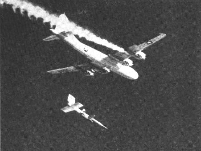 A U.S. Air Force Boeing B-29 Superfortress drops an unmanned Lockheed X-7A-1 test vehicle used in the development of ramjet missile engines.